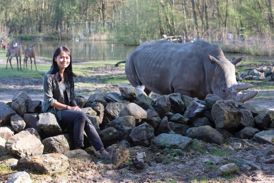 Trang at Burger Zoo, prior to receive her Future for Nature award 2018